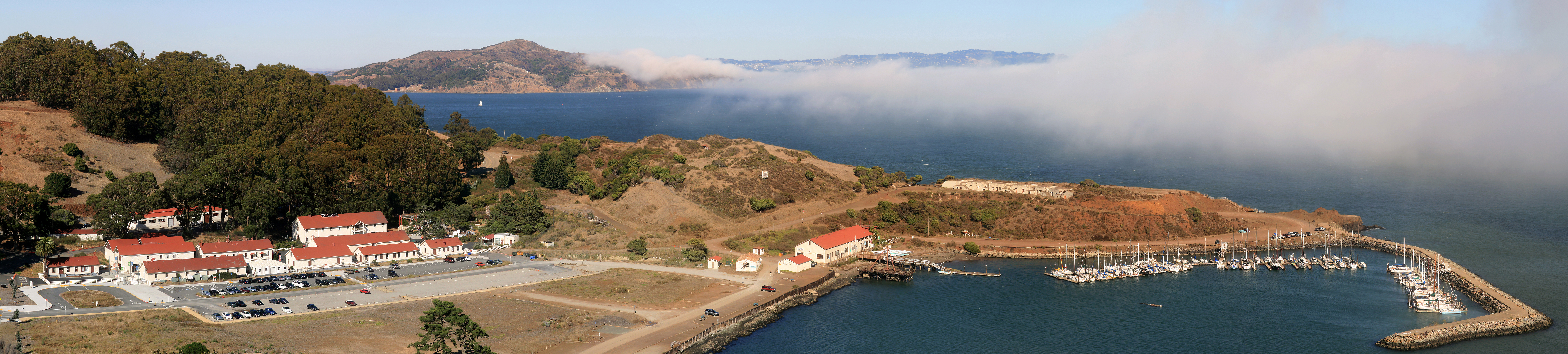 The Fort Baker, which borders the City of Sausalito in Marin County and is connected to San Francisco by the Golden Gate Bridge, served as an Army post until the mid-1990s, when the headquarters of the 91st Division moved to Parks Reserve Forces Training Area.The famous San Francisco fog is seen at the Bay